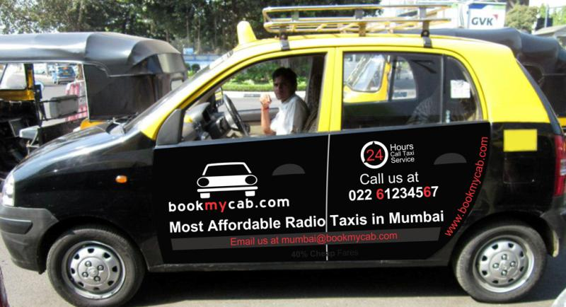 In recent years, Hyundai Santro and other hatchback taxis have started replacing Premier Padminis. Most of these newer model taxis are available on call 022-61234567 or one can also book online on thanks to State Transport Authority of Maharashtra State, Mumbai.